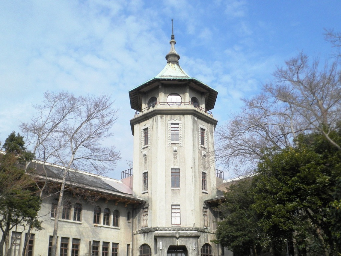 Shōwajukudō in Nagoya, Aichi.